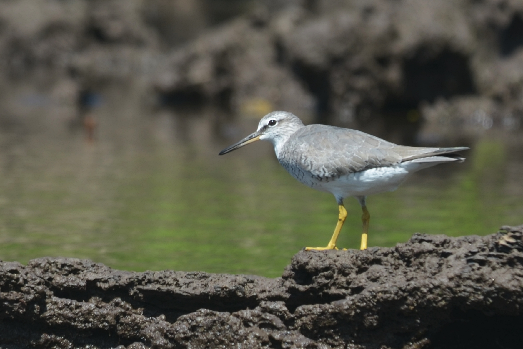 Grey-tailed tattler (Tringa brevipes) at Bahowo Swamp, North Sulawesi